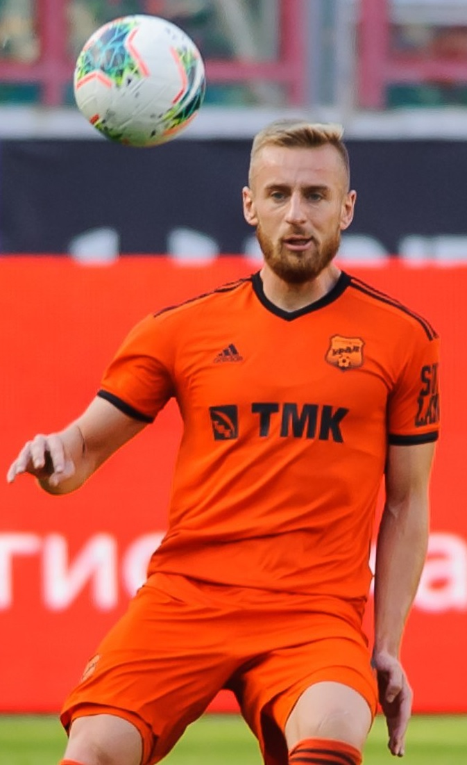 Rafał Augustyniak with FC Ural Yekaterinburg in a game against FC Lokomotiv Moscow.